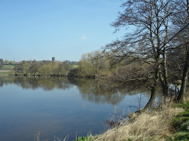 Budworth Mere SJ 6614 7677 @ 025° - Budworth Mere with Great Budworth church in the distance.